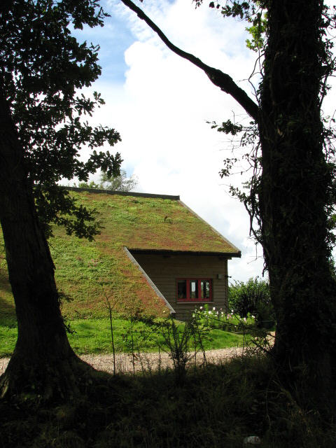 A modern house with a living roof The roof of a building that is covered with vegetation and soil (or with a growing medium) is called a living or a green roof. For more information see Living_roof